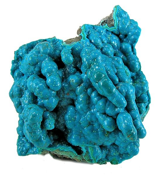 Chrysocolla Locality: Katanga (Shaba), Democratic Republic of Congo (Zaïre) (Locality at ) These new botryoidal chrysocollas look downright UNREAL, like plastic! But no, they are perfectly natural, just highly lustrous, and with a superb deep turquoise color. 4.9 x 4.4 x 3.8 cm